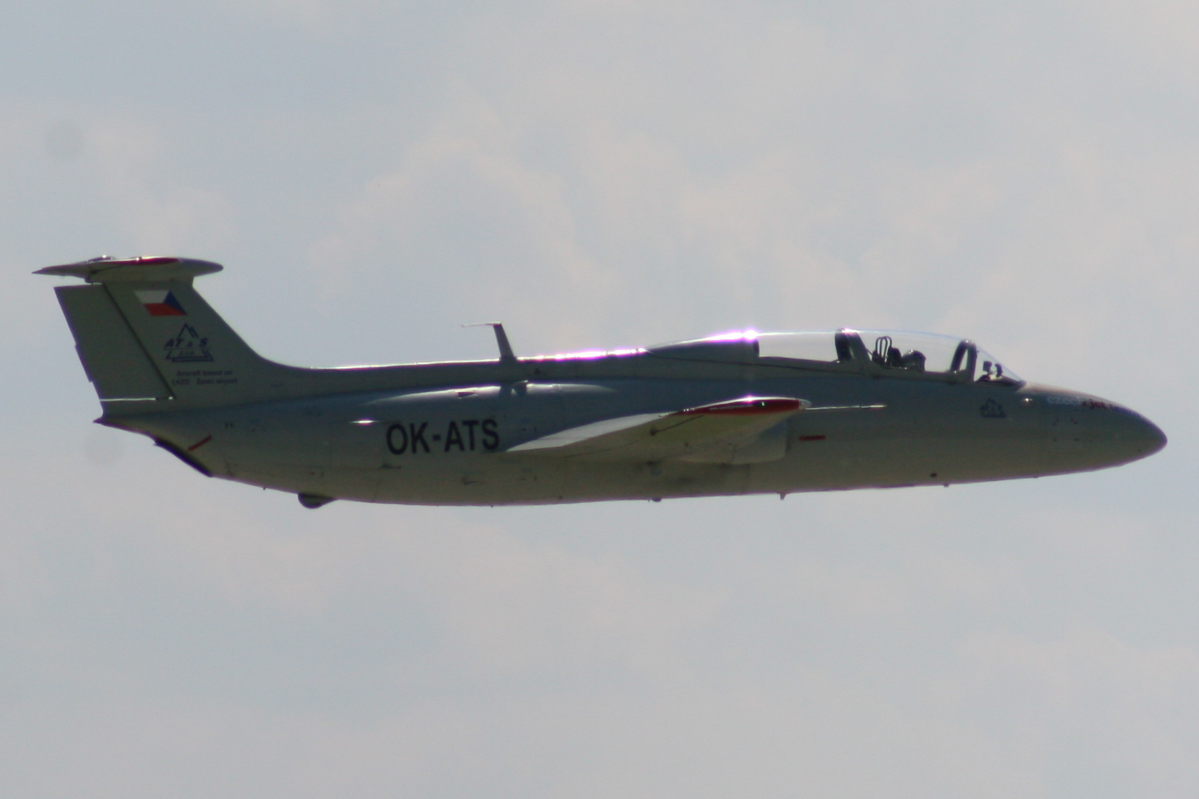 L-29 Delfín (reg. number OK-ATS) at Open Day 2009, AFB Čáslav (LKCV), Chotusice, The Czech Republic